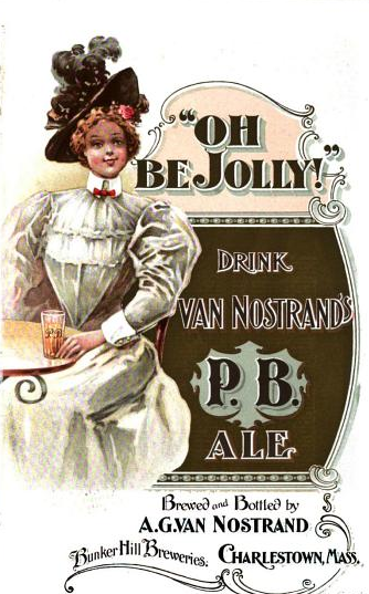 The Taunton Directory 1899